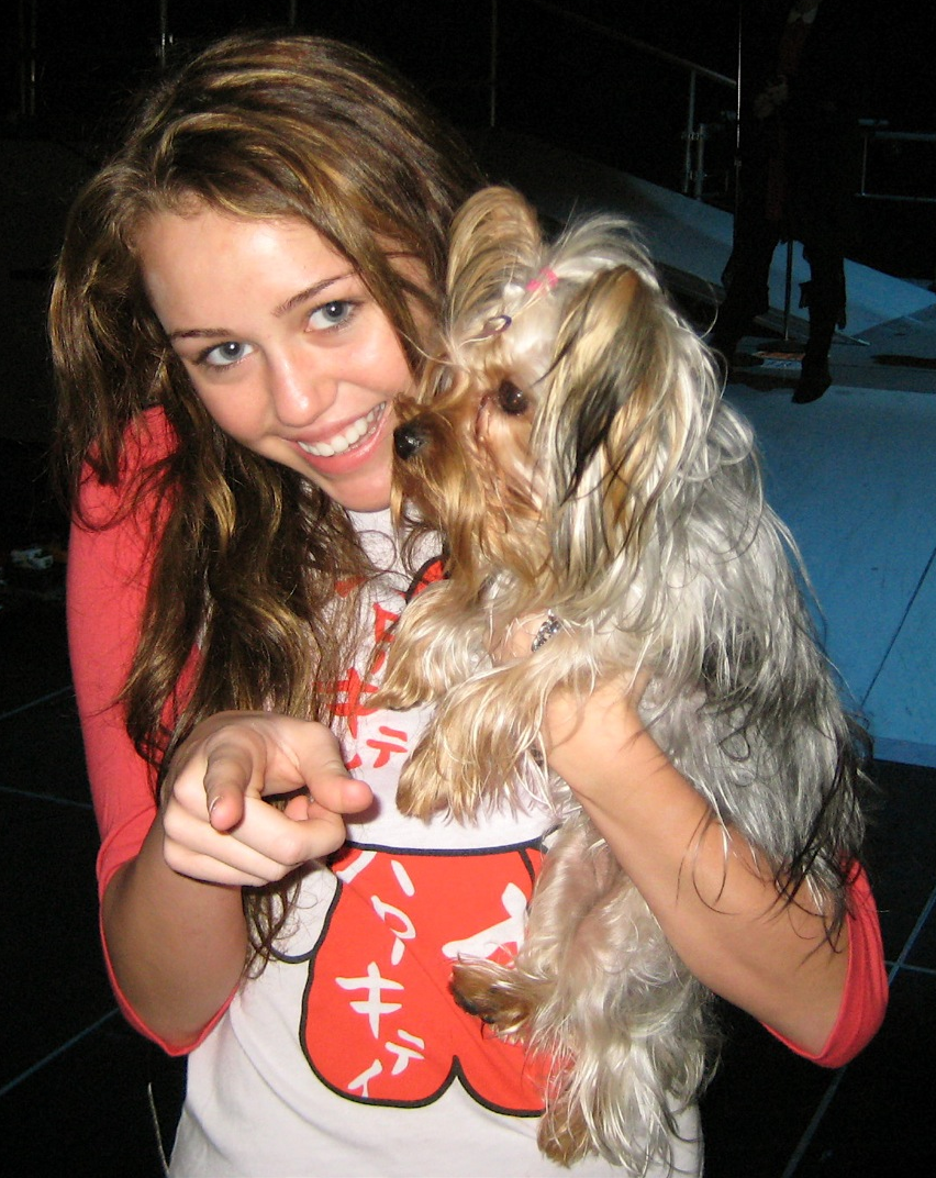 Miley Cyrus with her dog, Roadie.